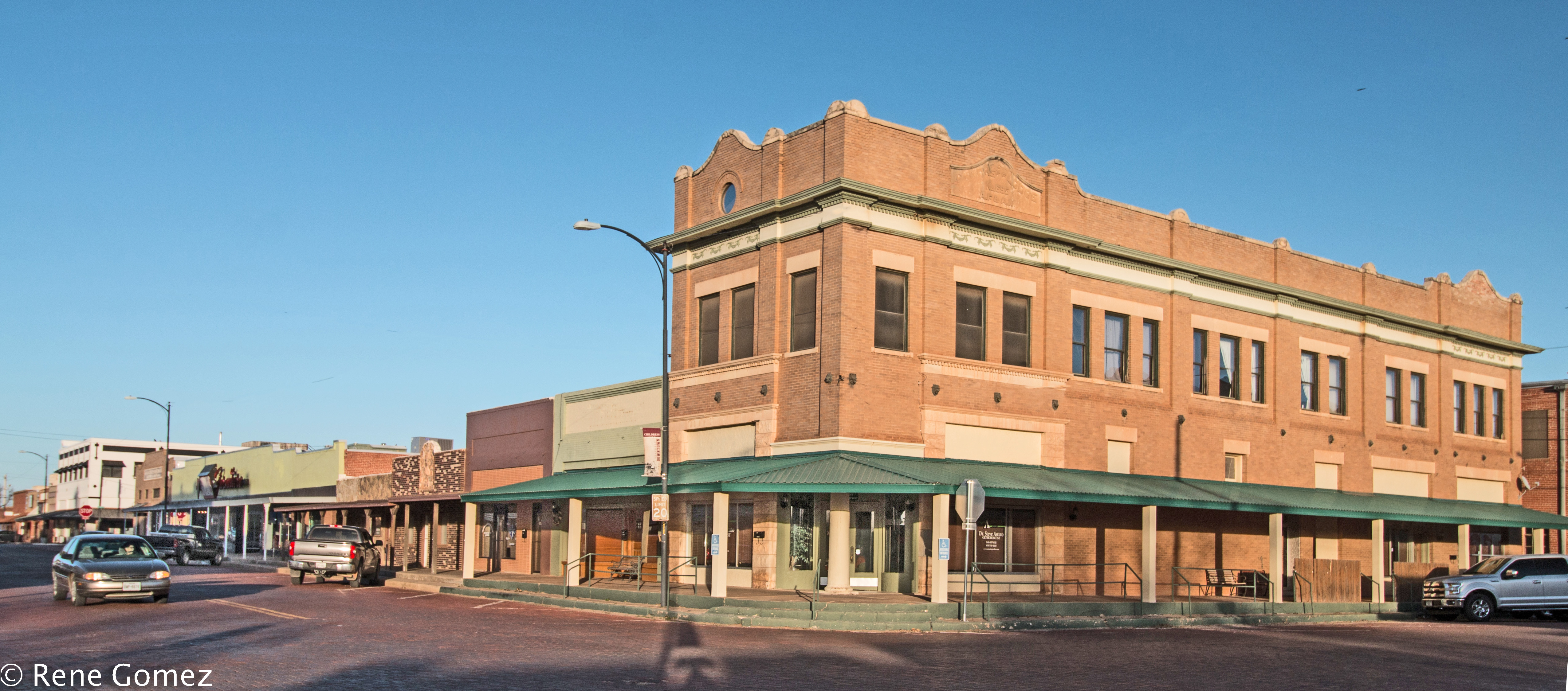 Downtown Childress, Texas